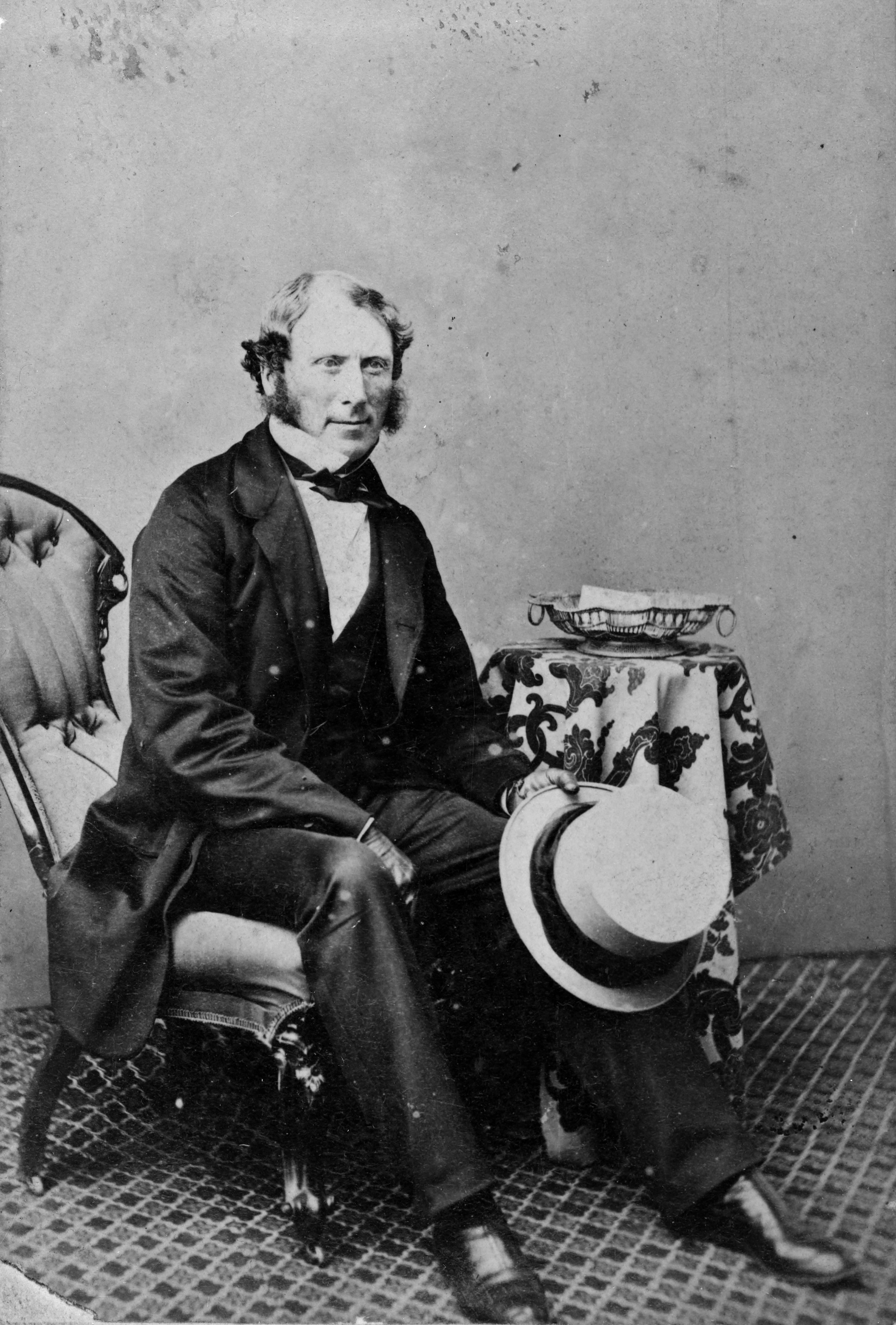 Seated portrait of Edward Dobson, ca 1866.